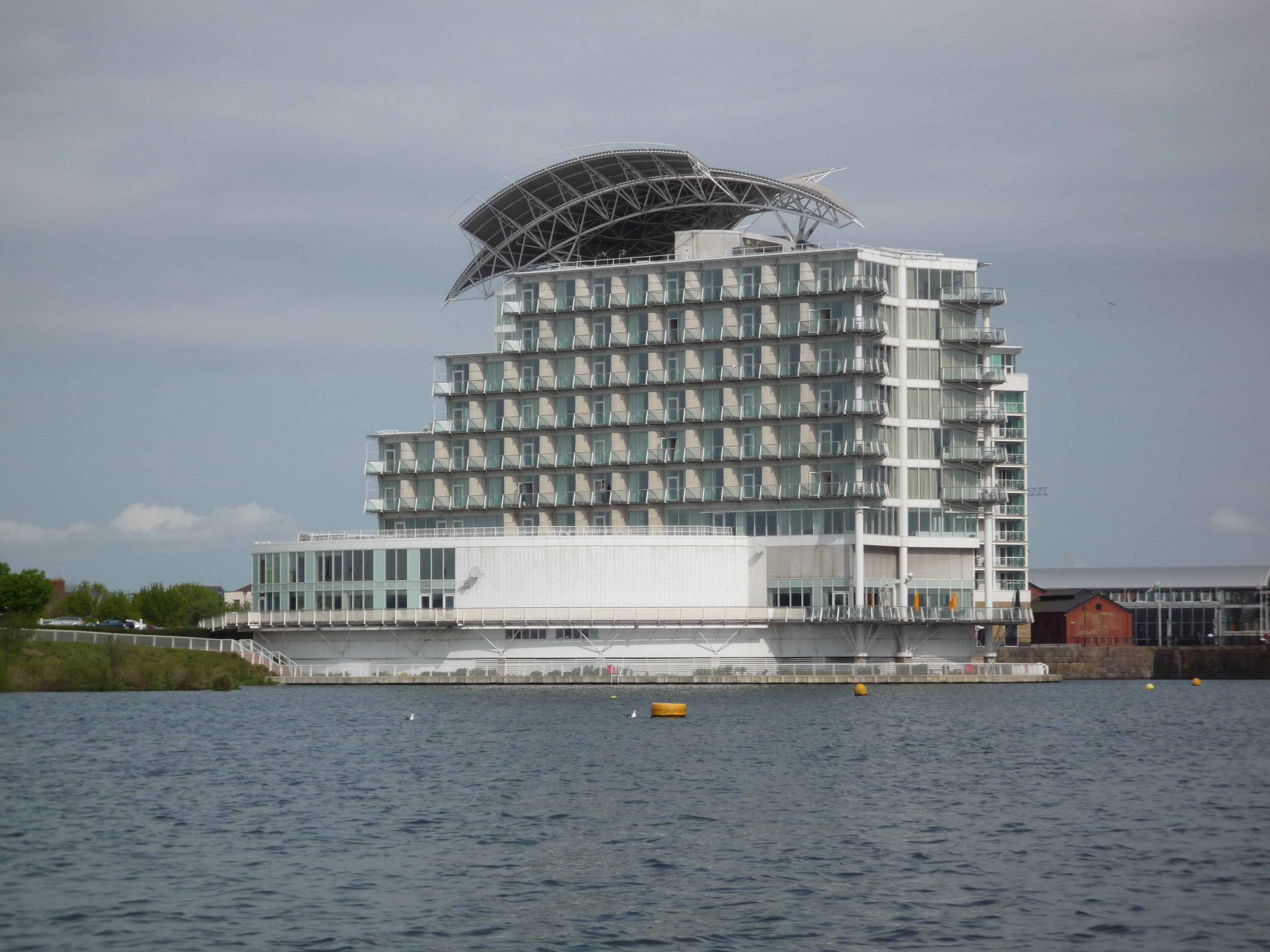 St Davids Hotel Cardiff